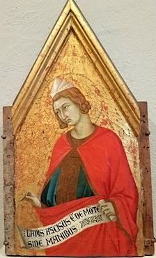 Daniel the Prophet, c. 1325, Ugolino di Nerio, pinnacle from an altarpiece, tempera and tooled gold on panel (Philadelphia Museum of Art)